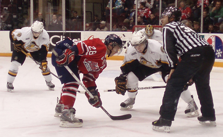 A photo of then-Oshawa Generals captain Brett Parnham taking a face-off against the Kingston Frontenacs in the 2008–09 OHL season.